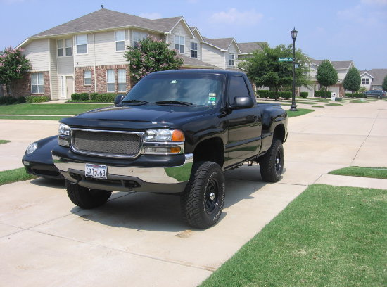 2001 GMC Sierra 6" of suspension lift and 3" of body lift